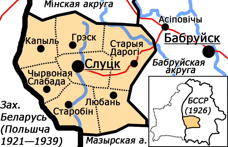 Sluck region (county) in Belarusian SSR (1924—1927) and its location on the map of the modern Belarus. In 1927, Hresk and Kapyl districts were attached to Minsk county, others — to Babrujsk county.